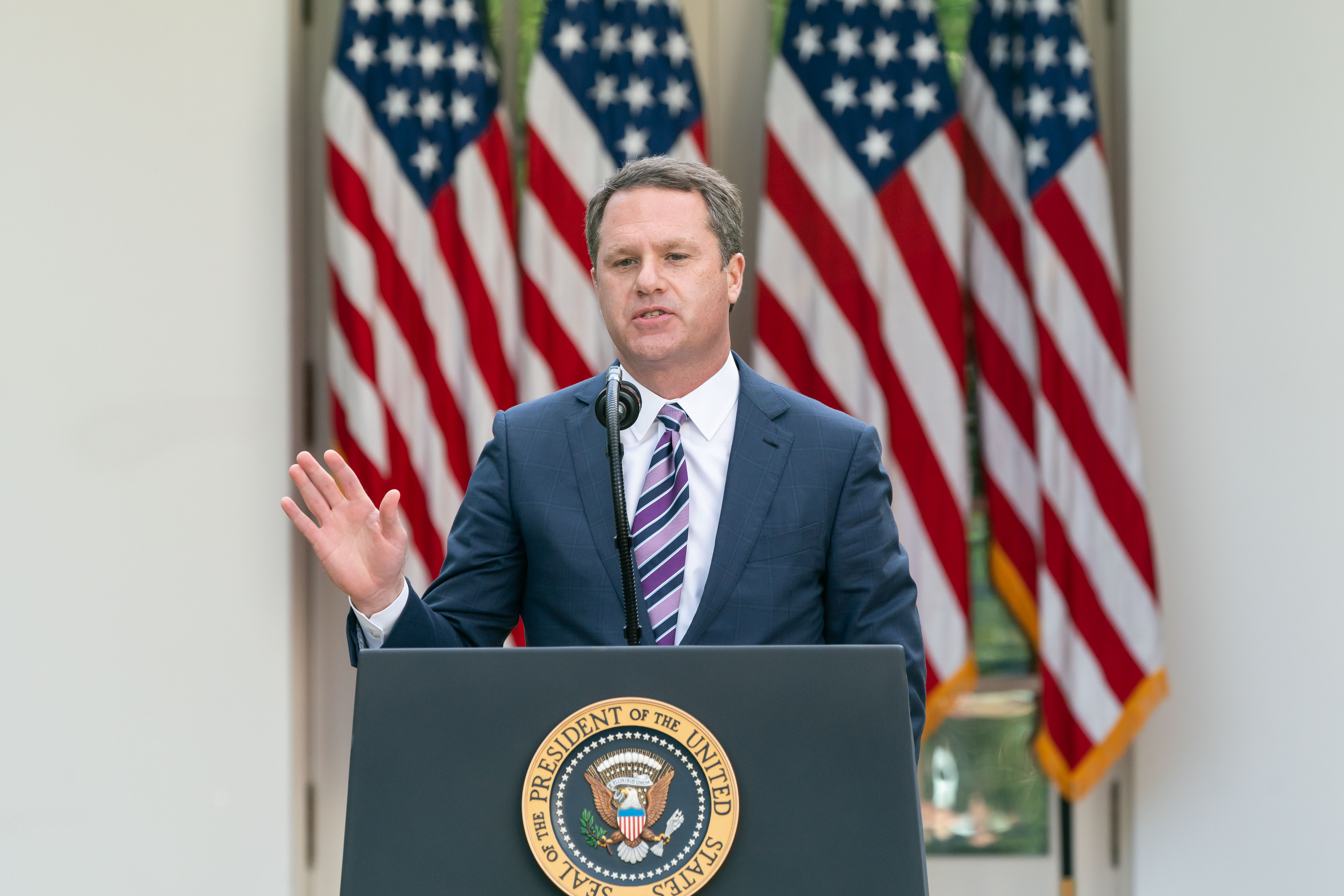 Doug McMillon, chief executive Officer of Walmart, addresses his remarks at the coronavirus (COVID-19) update briefing Monday, April 27, 2020, in the Rose Garden of the White House (Official White House Photo by Andrea Hanks)